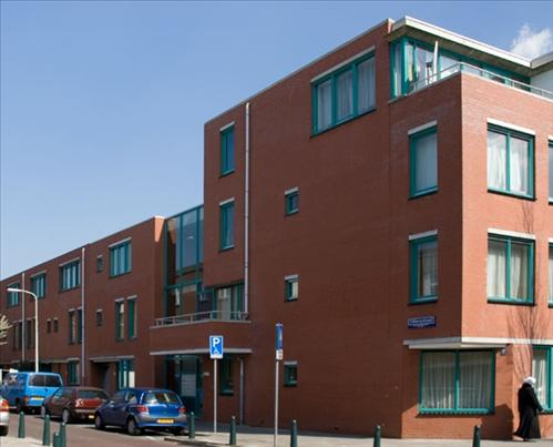 Cillierstraat, Transvaal, The Hague